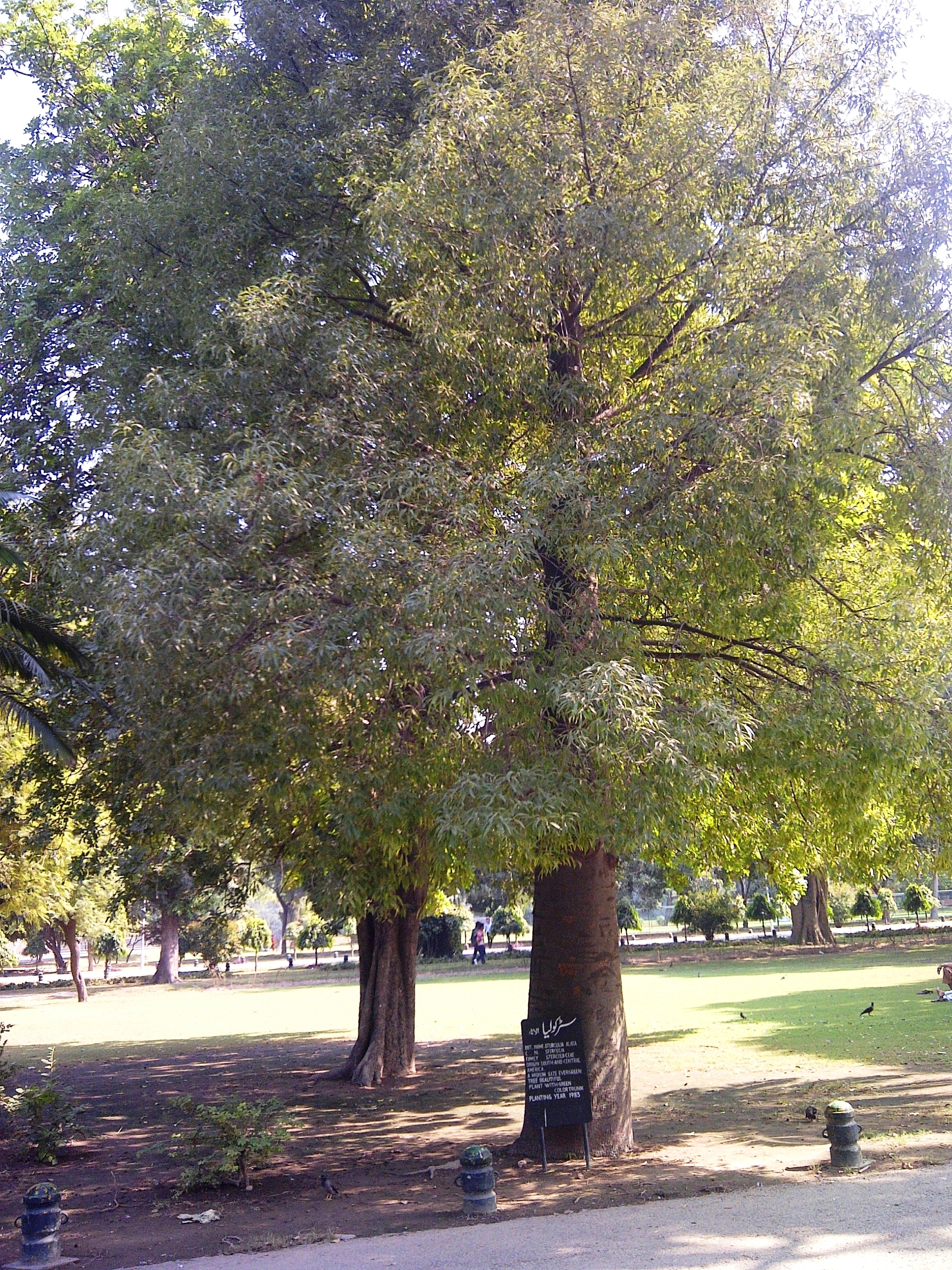 A Buddha's coconut tree in Bagh-e-Jinnah garden park, Lahore, Pakistan, that was planted in 1983 and photographed in 2014, i.e. 31 years later.